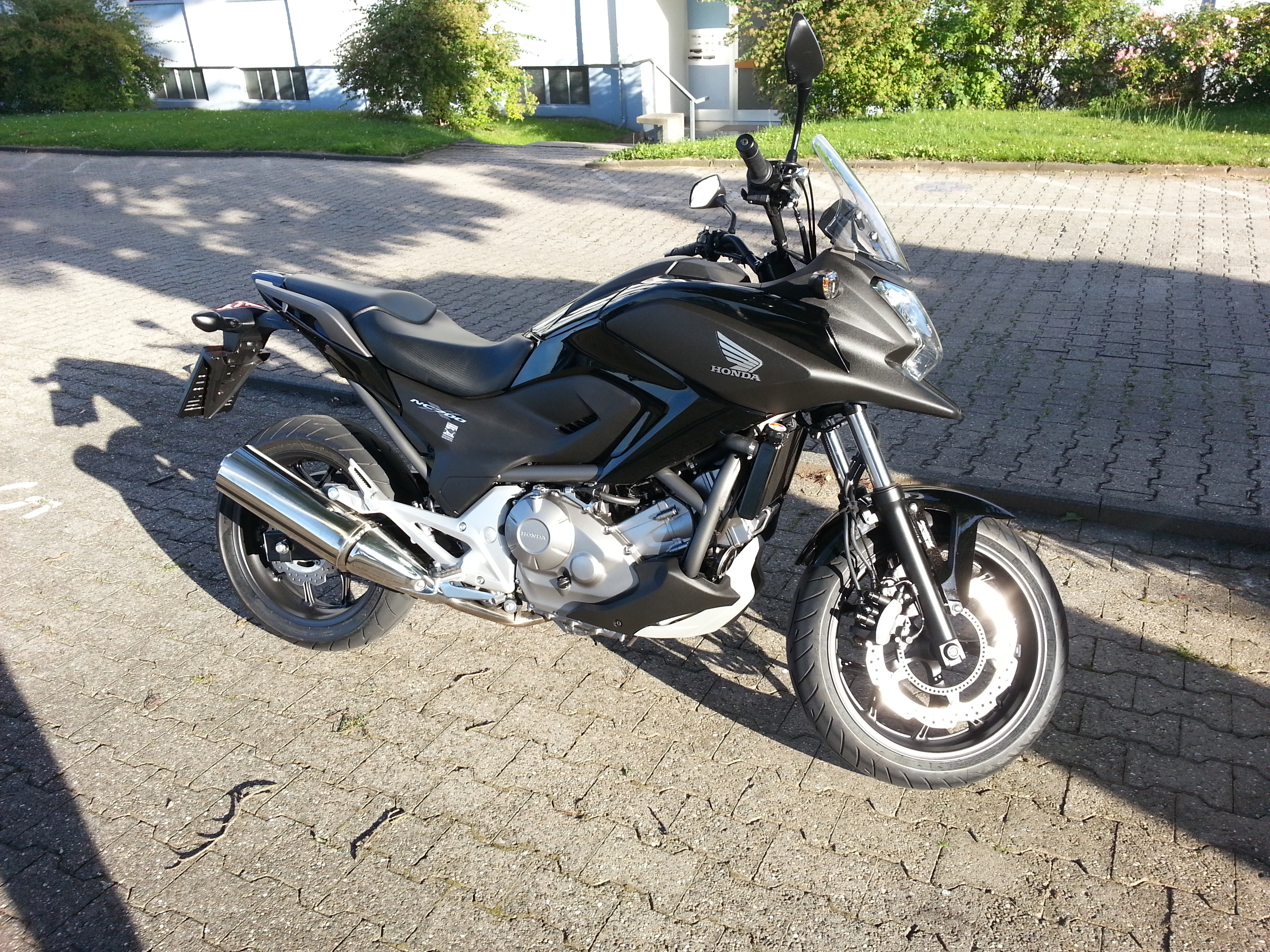 Honda_nc700x_sw_side